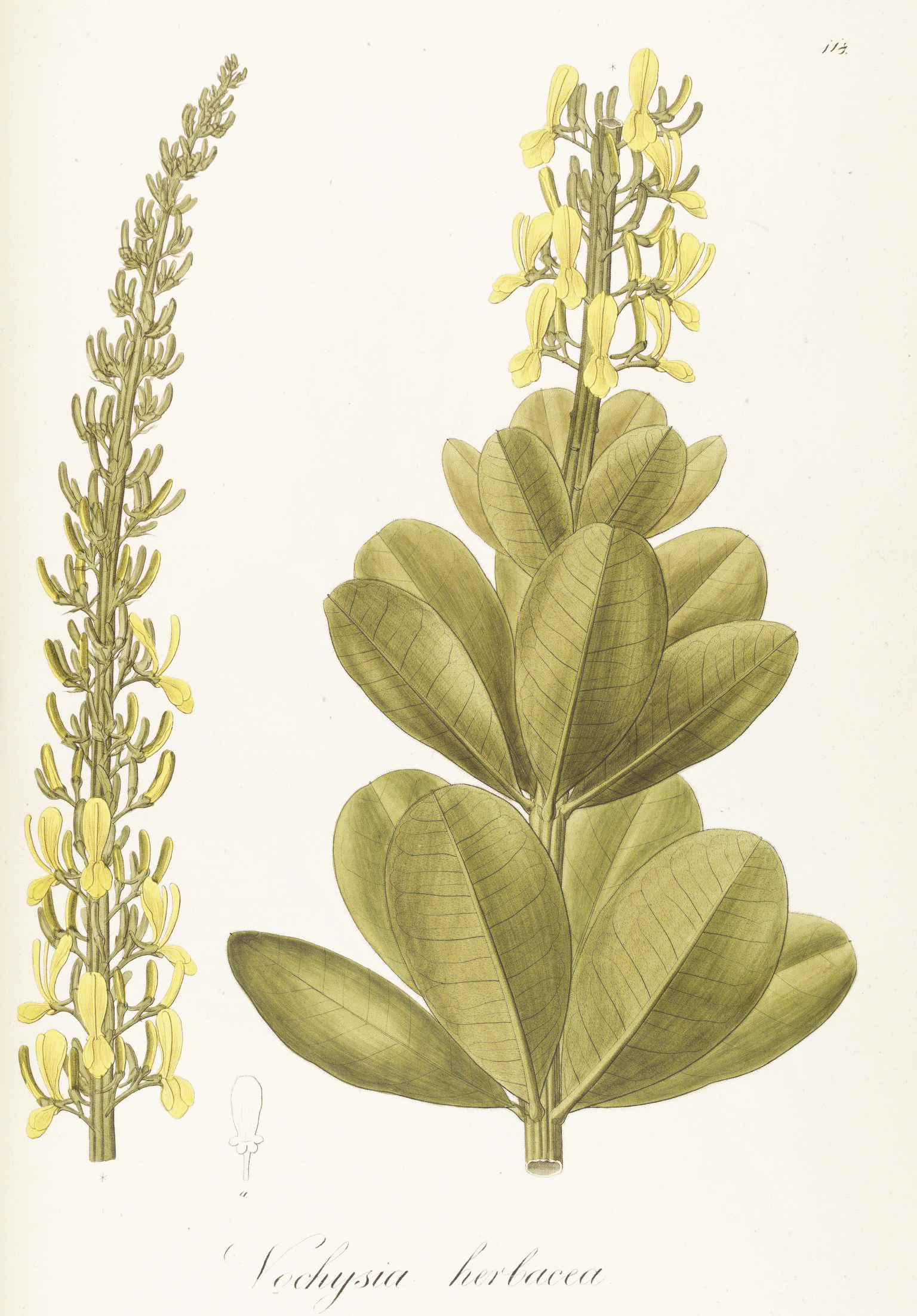 Plate from book